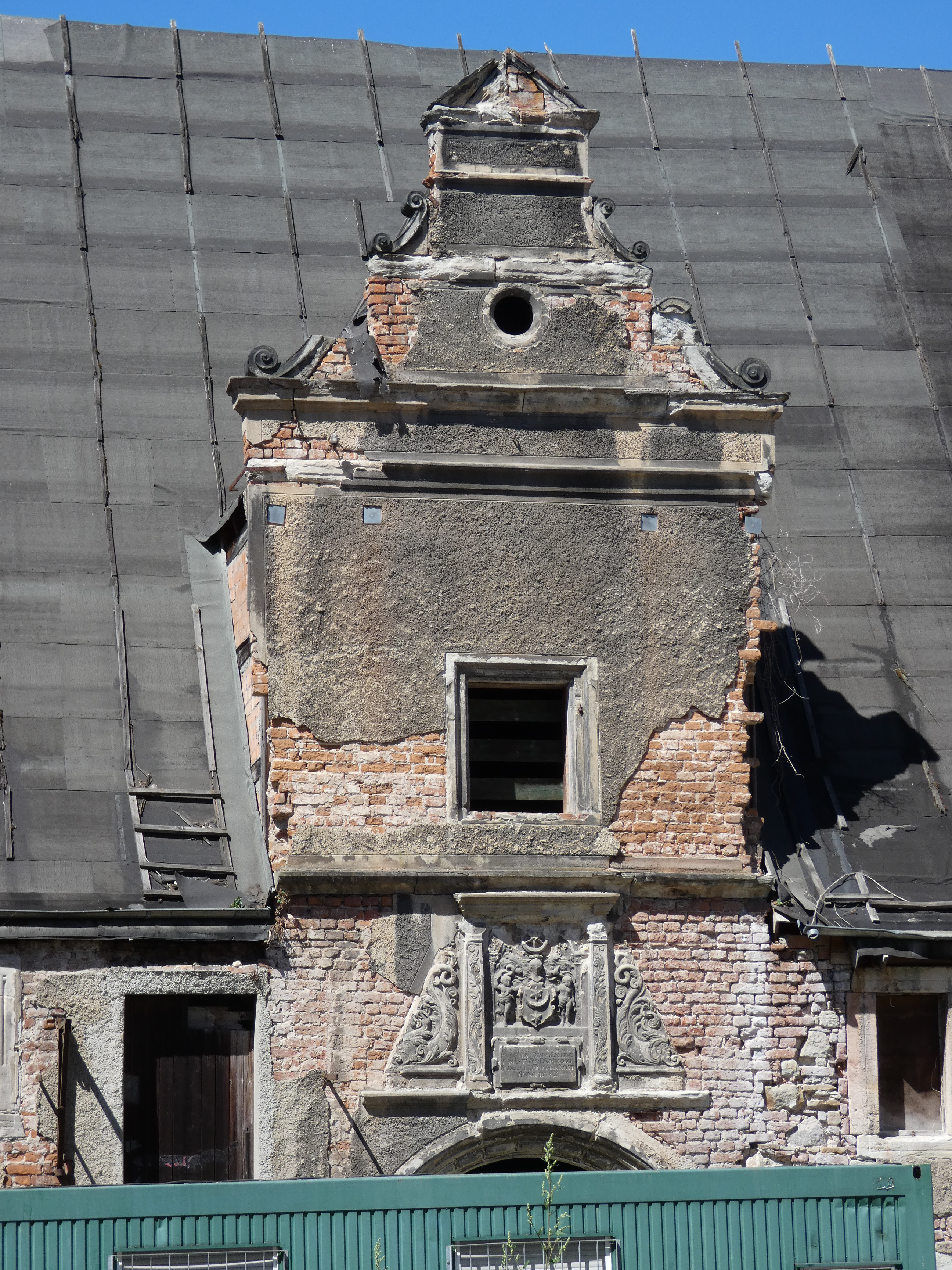 Renaissance gable at the Neumühle (new mill) in Halle (Saale)